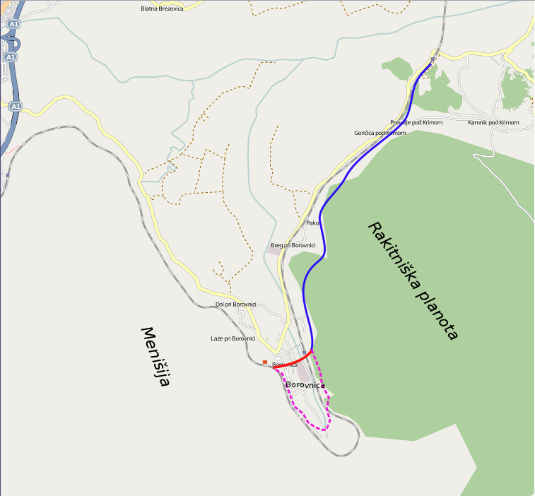 Temporary "solution" until SVG rendering issues for File:Railway lines in Borovnica area-map.svg are resolved. A map of the current and former railway routes in Borovnica area and location of the Borovnica railway viadukt (in German also known as Franzdorfer Viadukt) Legend: - a brown box: location of the former Borovnica train station (in use between 1856 and 1947) - black & white: the current route (the eastern section between Preserje station and the former Borovnica station built in 1947, the western section from the former Borovnica station to Verd and further towards Trieste built in 1856 and still in use today) - blue: initial route between Preserje station and the viaduct (1856 - 1947), ascending the slopes of the Rakitna Plateau (Rakitniška planota) - red: the Borovnica viaduct, completed in 1856, partly destroyed in 1941, bombed in 1944, completely demolished a few years later) - dashed violet: German avoiding line, built immediately after bombing of the viaduct, in use from 1945 to 1947